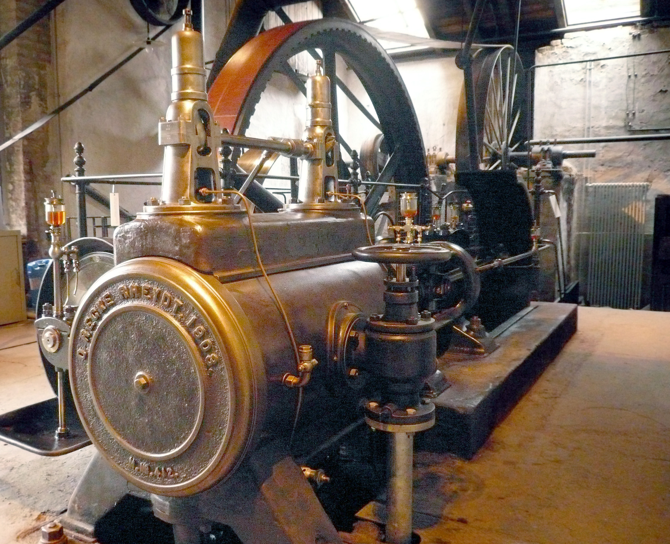 Fully working Single-cylinder valve-drive piston steam engine with 80 hp at the LVR Industrial Museum - Mueller Cloth Mill (produced by Otto Recke, Rheydt, 1903)